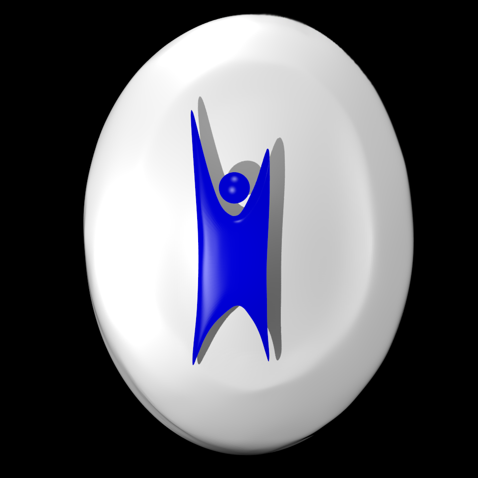 Happy human, a secular humanist logo made in blender quick. Some edges could be cleaner..